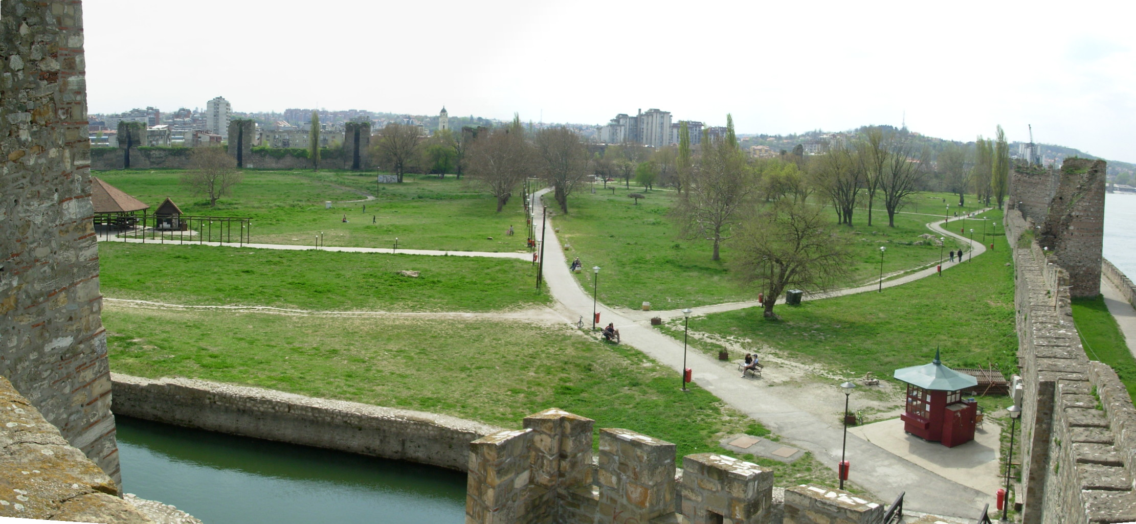 Panoramic photo of big town of Smederevo Fortress. Taken from the gate above the entrance of the small town